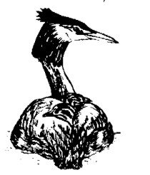 Line drawing of Great Crested Grebe with young on its back, used in Dowdeswell Reservoir (Gloucestershire nature reserve) Annual Bird Reports